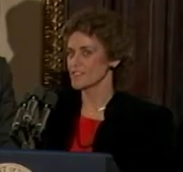 Full Title: President Reagan's Remarks on Meeting the University of Southern California Women's Basketball Team in the Indian Treaty Room, Old Executive Office Building on April 6, 1984 Creator(s): President (1981-1989 : Reagan). White House Television Office. 1/20/1981-1/20/1989 (Most Recent) Series: Video Recordings, 1/20/1981 - 1/20/1989 Collection: Records of the White House Television Office (WHTV) (Reagan Administration), 1/20/1981 - 1/20/1989 Transcript: Production Date: 4/6/1984 Access Restriction(s):Unrestricted Use Restriction(s):Unrestricted Contact(s): Ronald Reagan Library (LP-RR), 40 Presidential Drive, Simi Valley, CA 93065-0600 Phone: 800-410-8354, Fax: 805-577-4074, National Archives Identifier:5730544